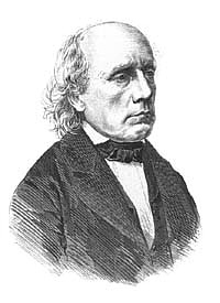 Gustav Theodor Fechner (1801 - 1887)